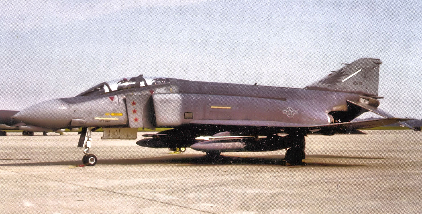 123d Fighter-Interceptor Squadron McDonnell F-4C-23-MC Phantom 64-0776, Portland International Airport, Oregon, 1988